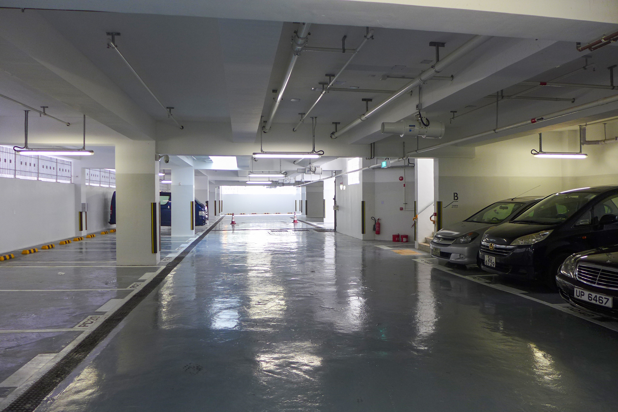 Sheung Chui Court